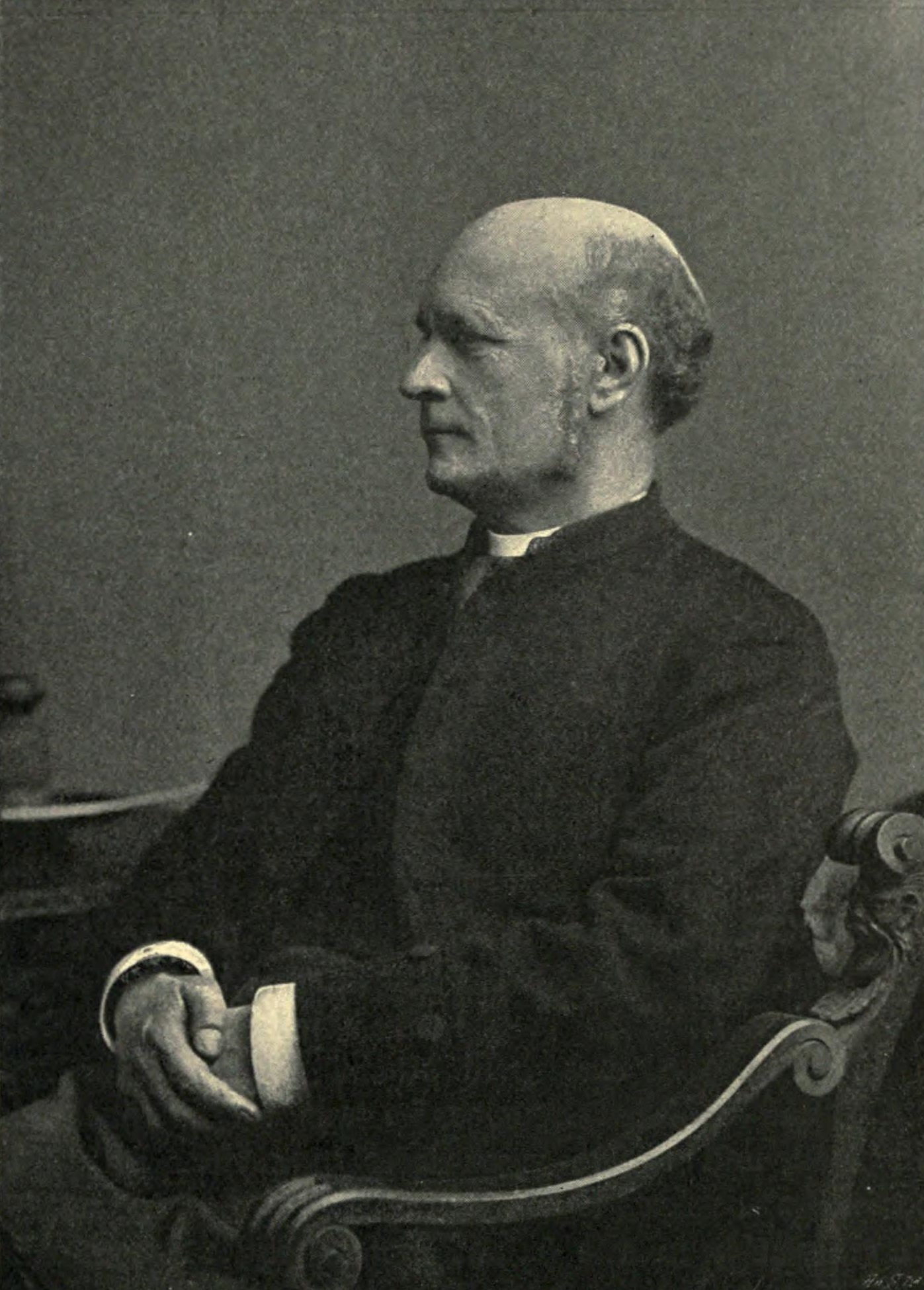 Portrait of William Lefroy